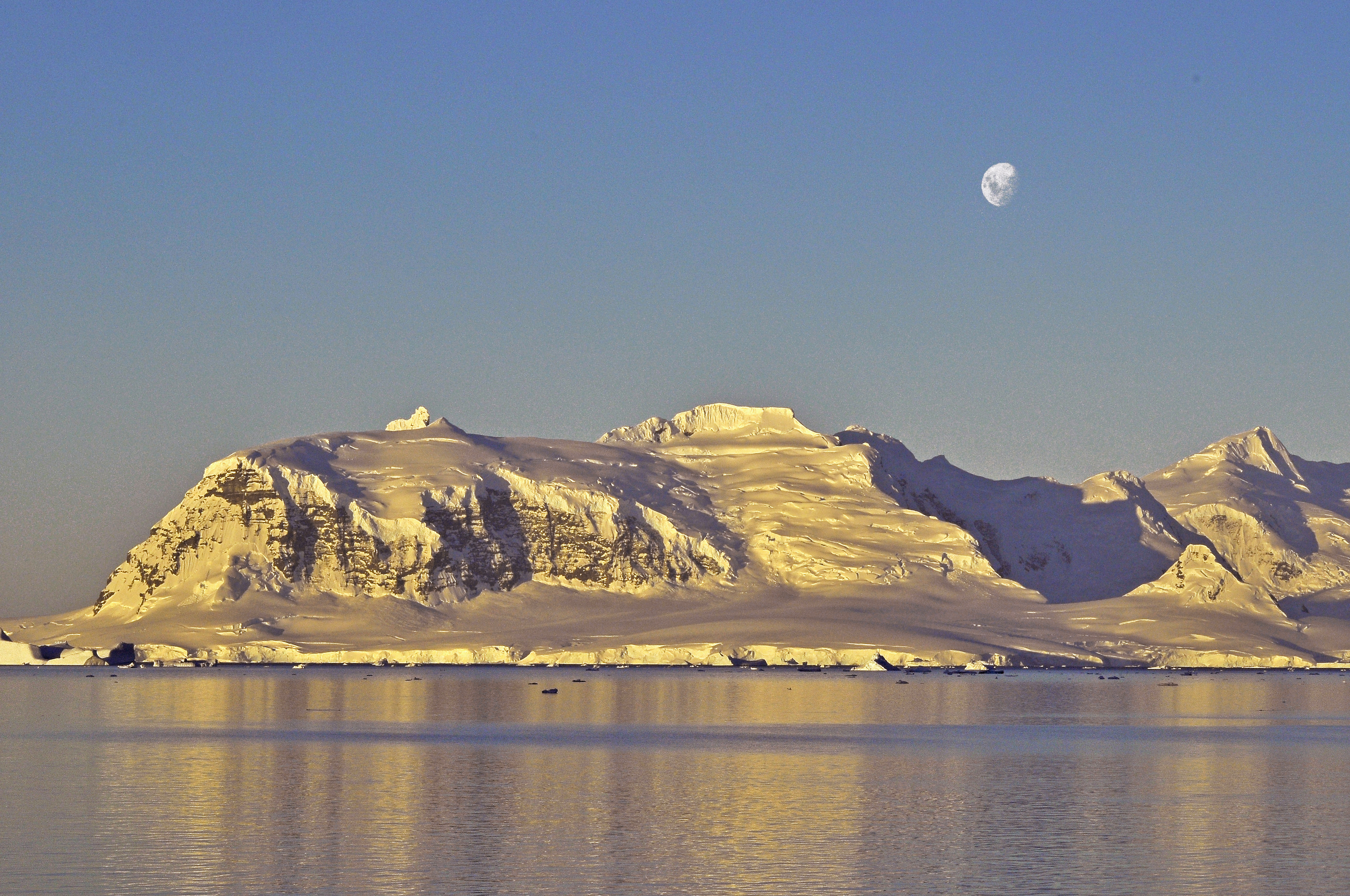 Sunset at the South edge of the Brabant Island, Antarctica